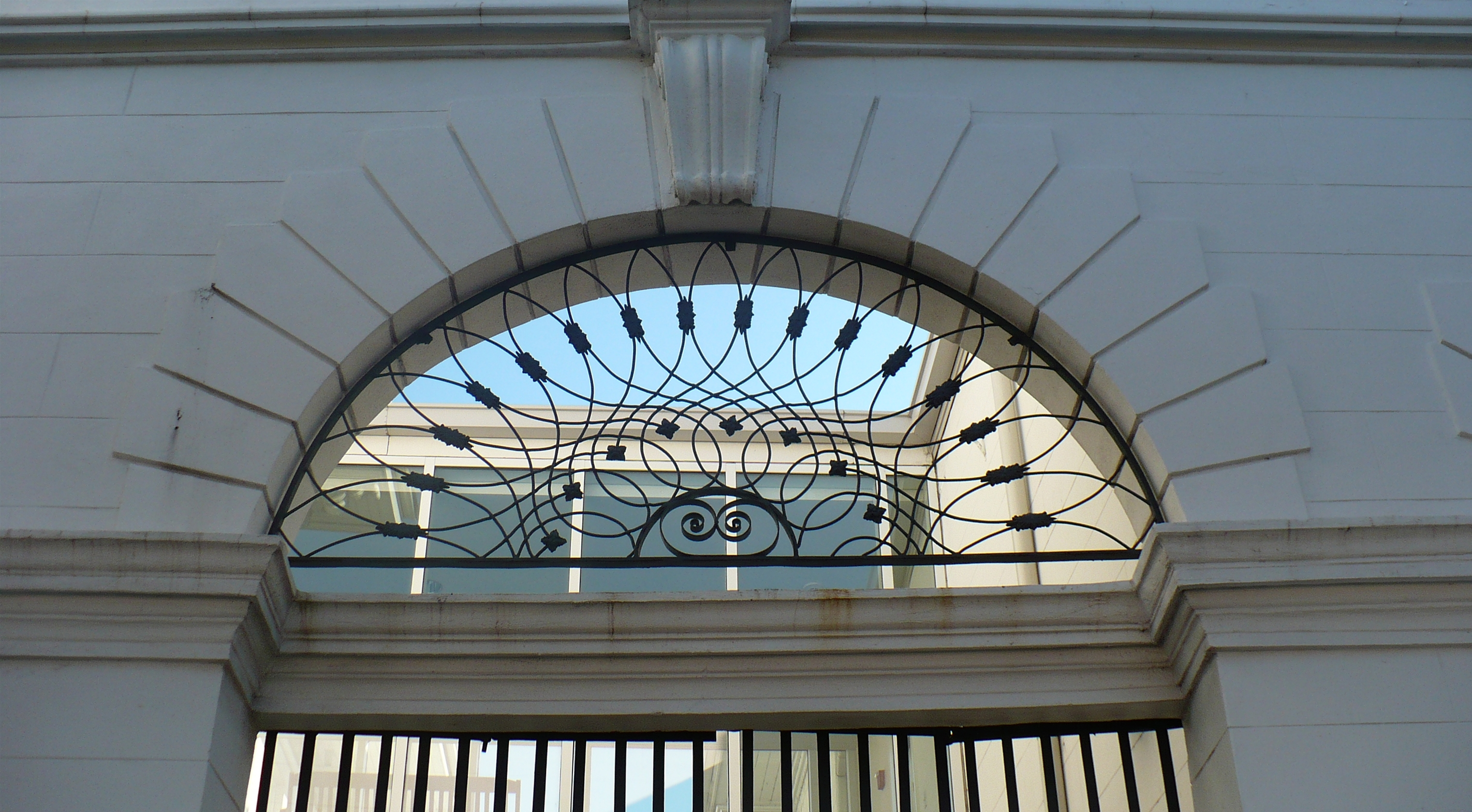 Old City Hall and Southern Market in Mobile, Alabama. Currently home of the Museum of Mobile. Detail of iron-work over wrought iron doorway.